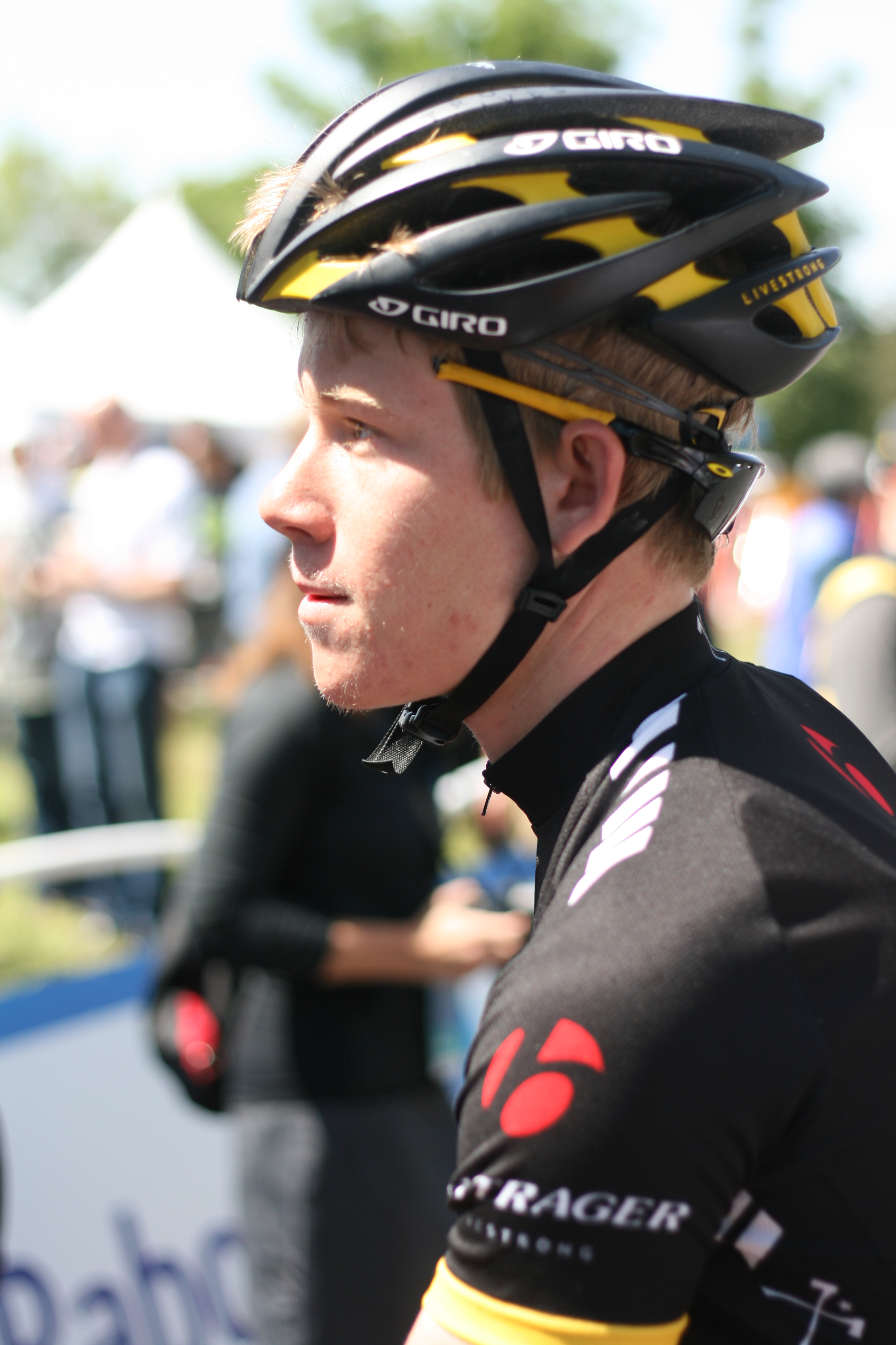 2012 Amgen Tour of California Stage 3 start, Berryessa Road, San Jose, CA